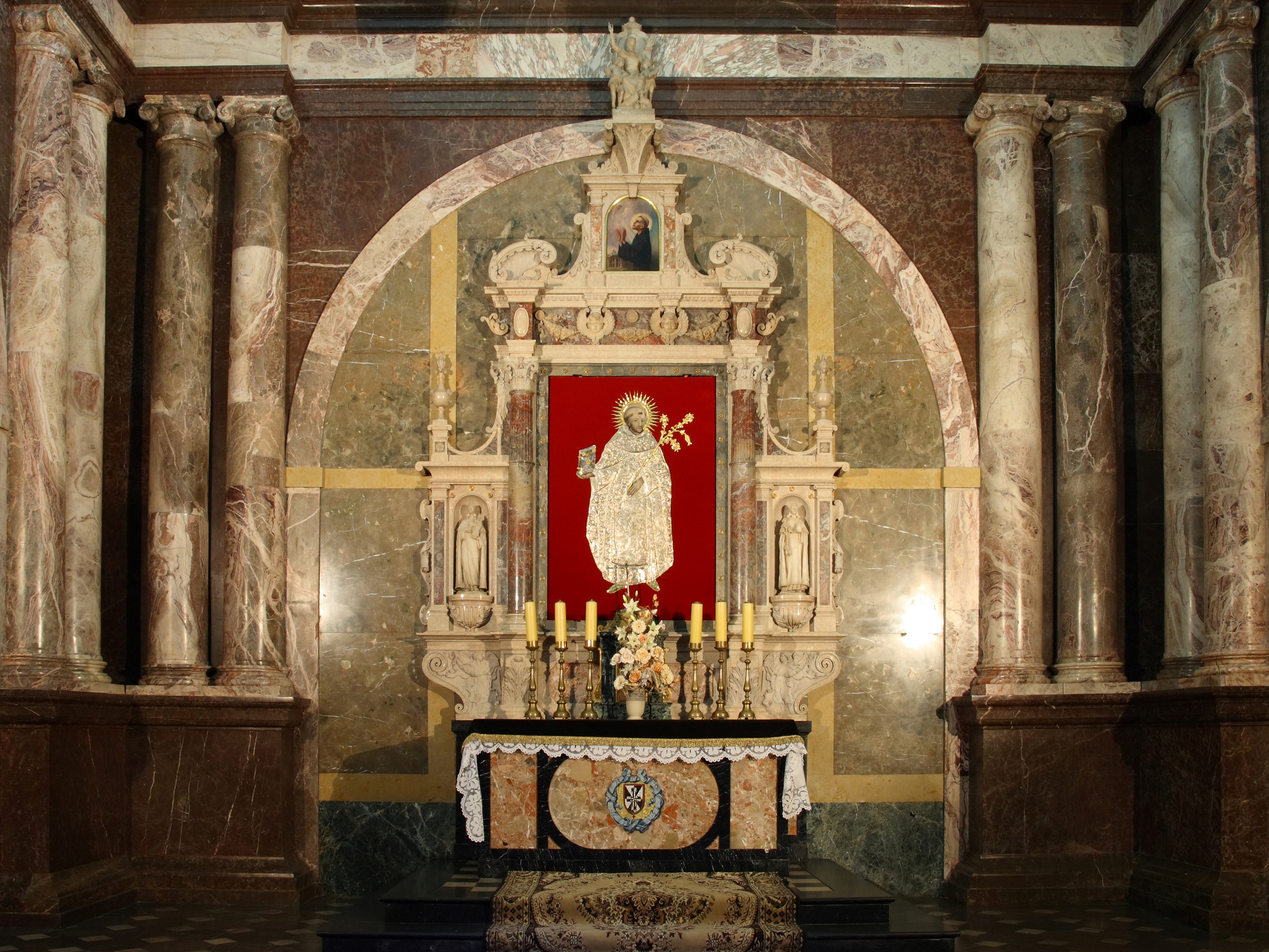 Myszkowski family chapel in Dominicanus Church in Kraków (Poland).